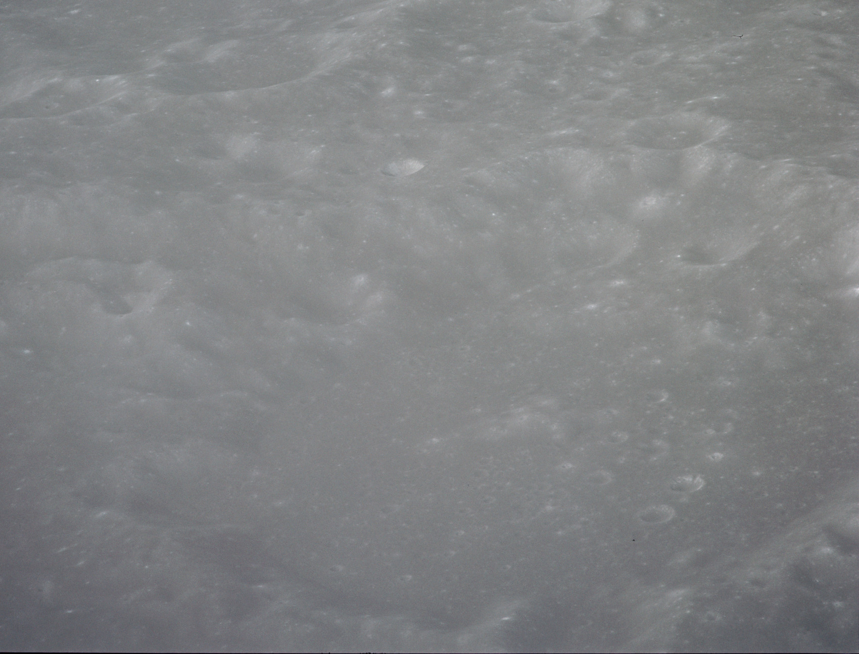 Oblique view of Klein crater, on the moon, facing south. Brightness and contrast adjusted.